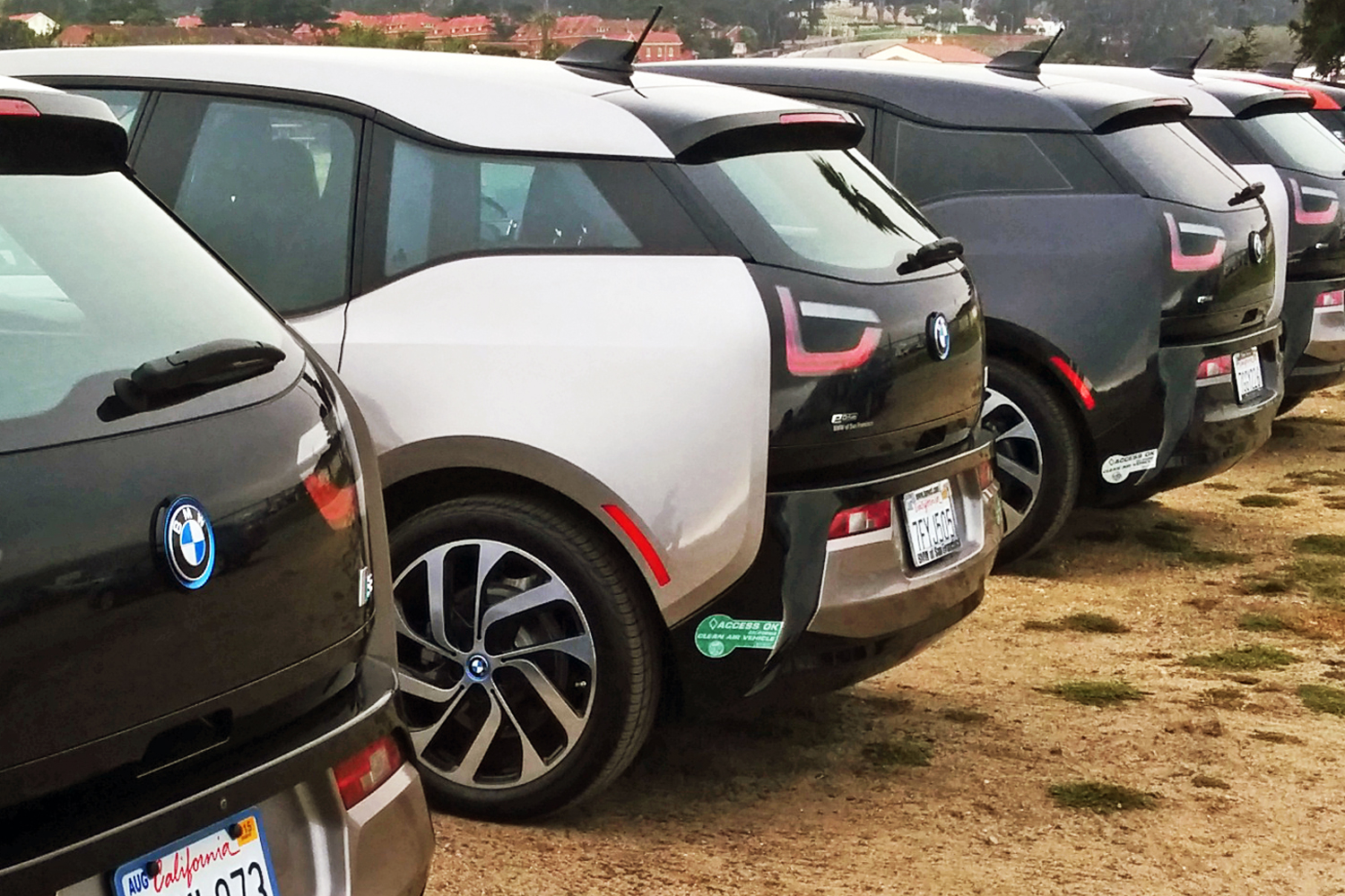 Several BMW i3 electric cars at Crissy Field, San Francisco. The model with the range-extender option displays California's HOV green sticker. The all-electric model displays the white stickers